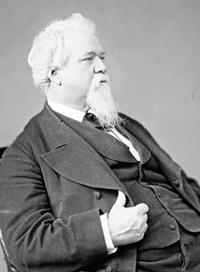 Obadiah B. McFadden, Congressional Delegate from Washington Territory